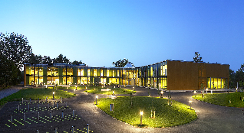 Facade of Sipoon lukio, Finland